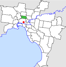 Location of the City of Brunswick within Melbourne.